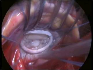 Vista quirúrgica tras reparación con anuloplastia